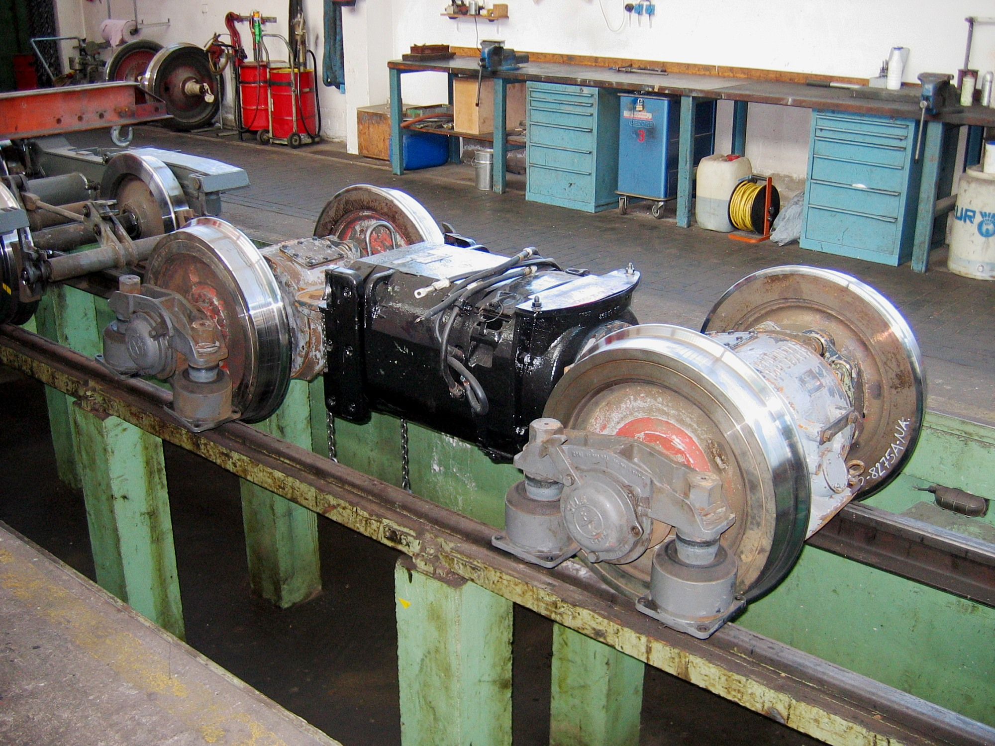 Narrow gauge power bogie of a StLB VT railcar of the Murtalbahn. The electric DC motor is mounted between the wheelsets.